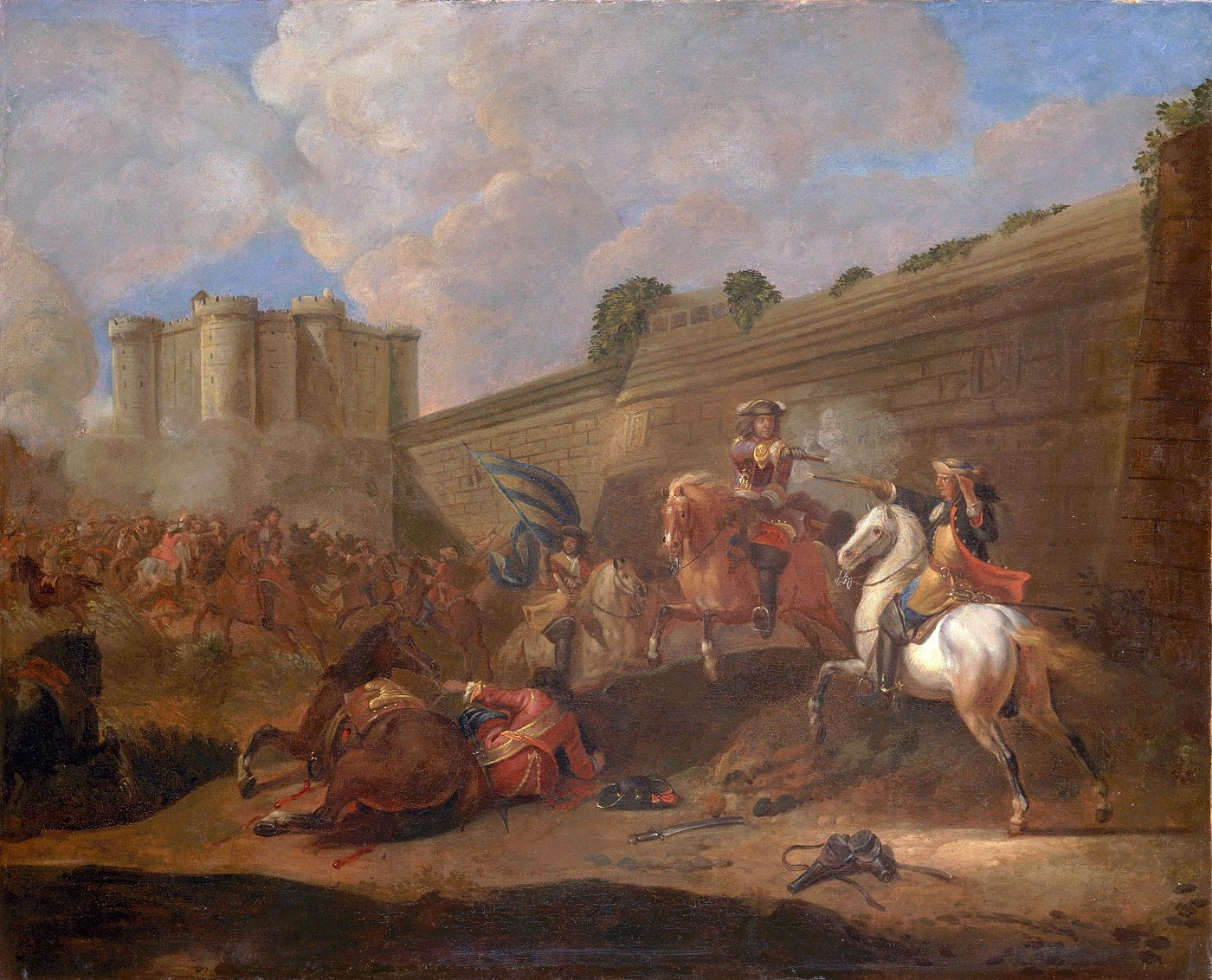 Episode of the Fronde at the Faubourg Saint-Antoine by the Walls of the Bastille.